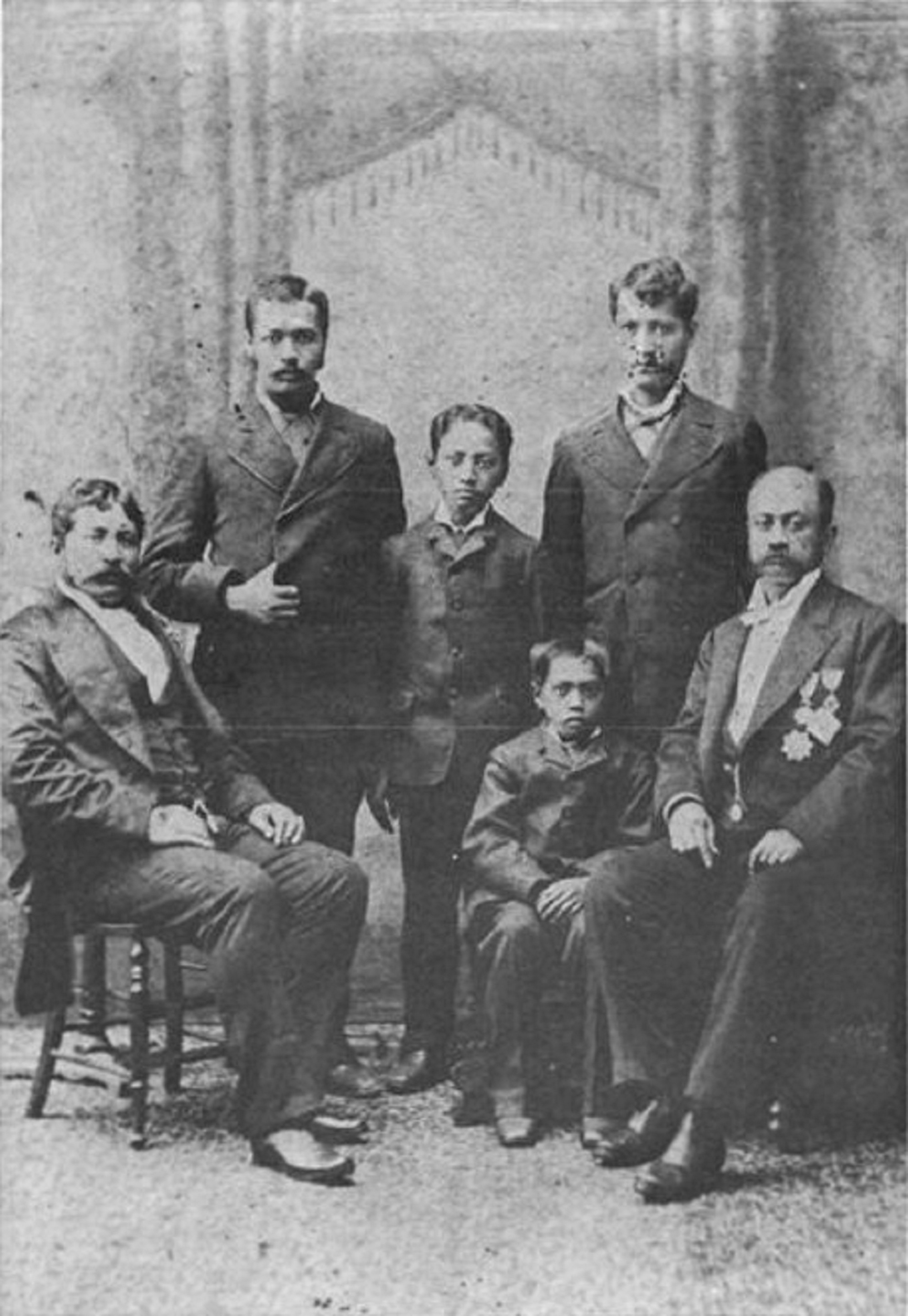 Young students in San Francisco en route to Japan and China in 1882, accompanied by John Kapena, King Kalakaua's Envoy Extraordinaire and Minister Plenipotentiary to Japan. Seated left to right: John Lota Kaulukoʻu, James Haku'ole, and Kapena. Standing left to right: unidentified man, Isaac Harbottle, and (probably) James Kapaʻa.